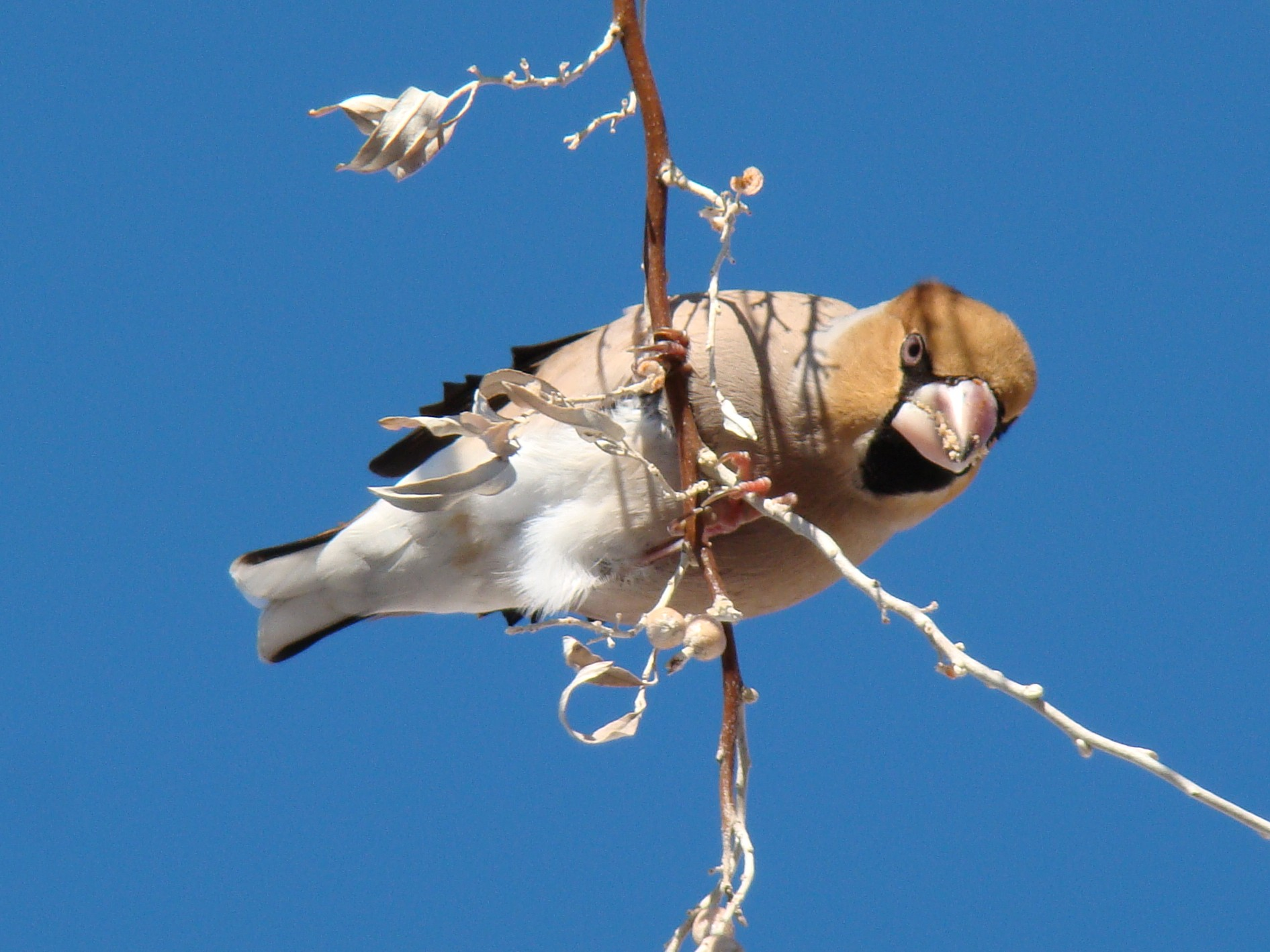 Coccothraustes coccothraustes on Elaeagnus angustifolia; Baikonur-town, Kazakhstan.